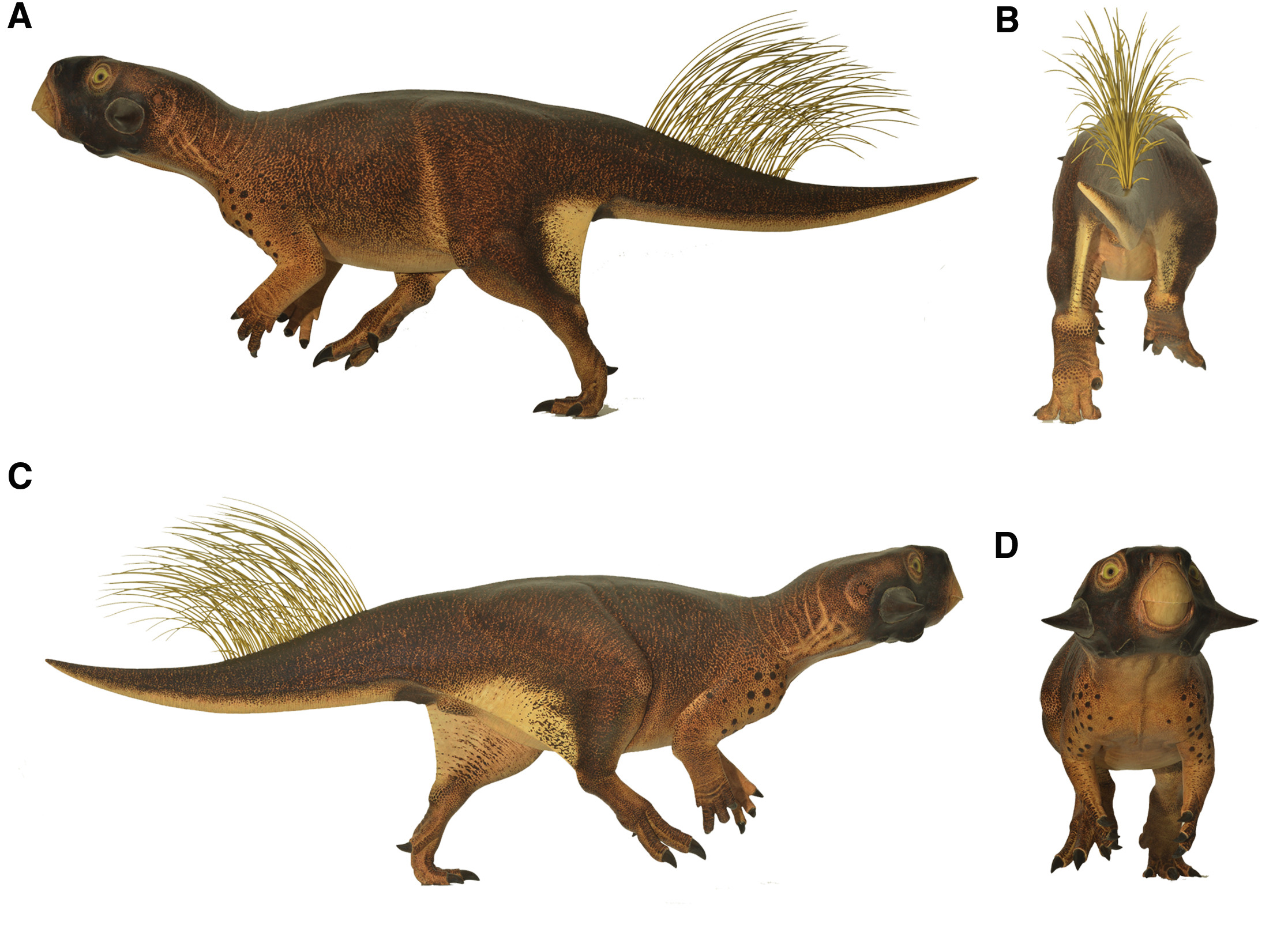 Model of Psittacosaurus Based on Skin and Pigmentation Patterns on SMF R 4970 Left lateral view (A), posterior view (B), right lateral view (C), and anterior view (D).